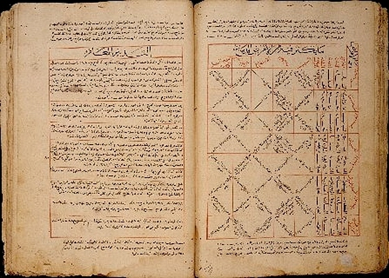 Ibn Butlan's Taqwim al-Sihha (Maintenance of Health), Near East, 14th century, Arabic text in naskh script on paper